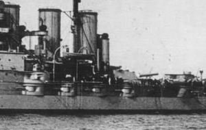 Thumbnail photograph showing port secondary gun battery on British battlecruiser HMS Tiger.